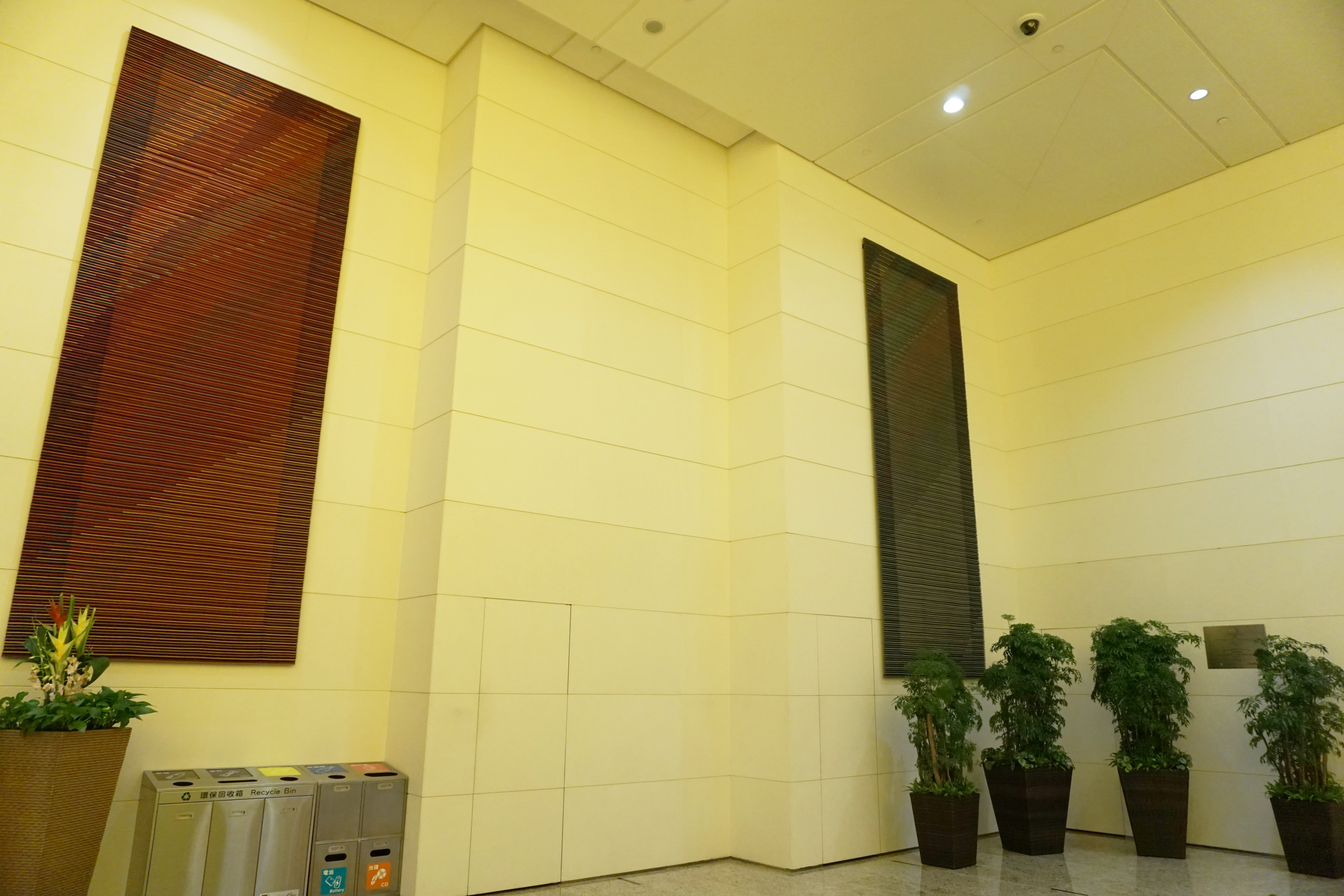 Hong Kong Station in Central, Hong Kong.